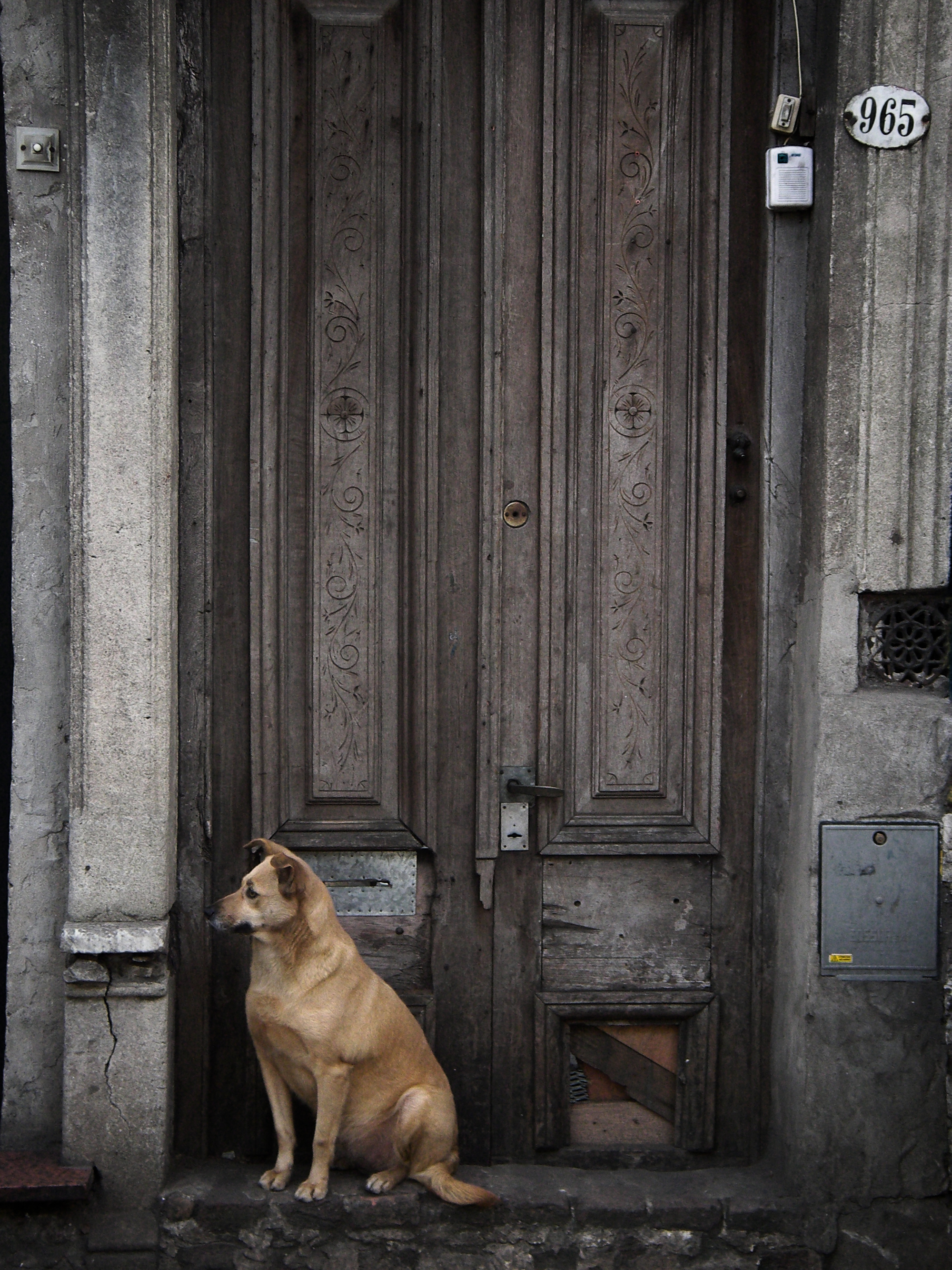 Dog waiting for his owners to come. Was taken in argentina on one of the most colorful places in "la boca, buenos aires"